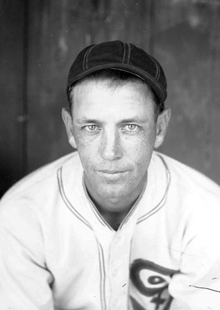 "Informal half-length portrait of baseball player Ted Lyons of the American League's Chicago White Sox, sitting in a dugout at a ballpark in San Antonio, Texas, during spring training."